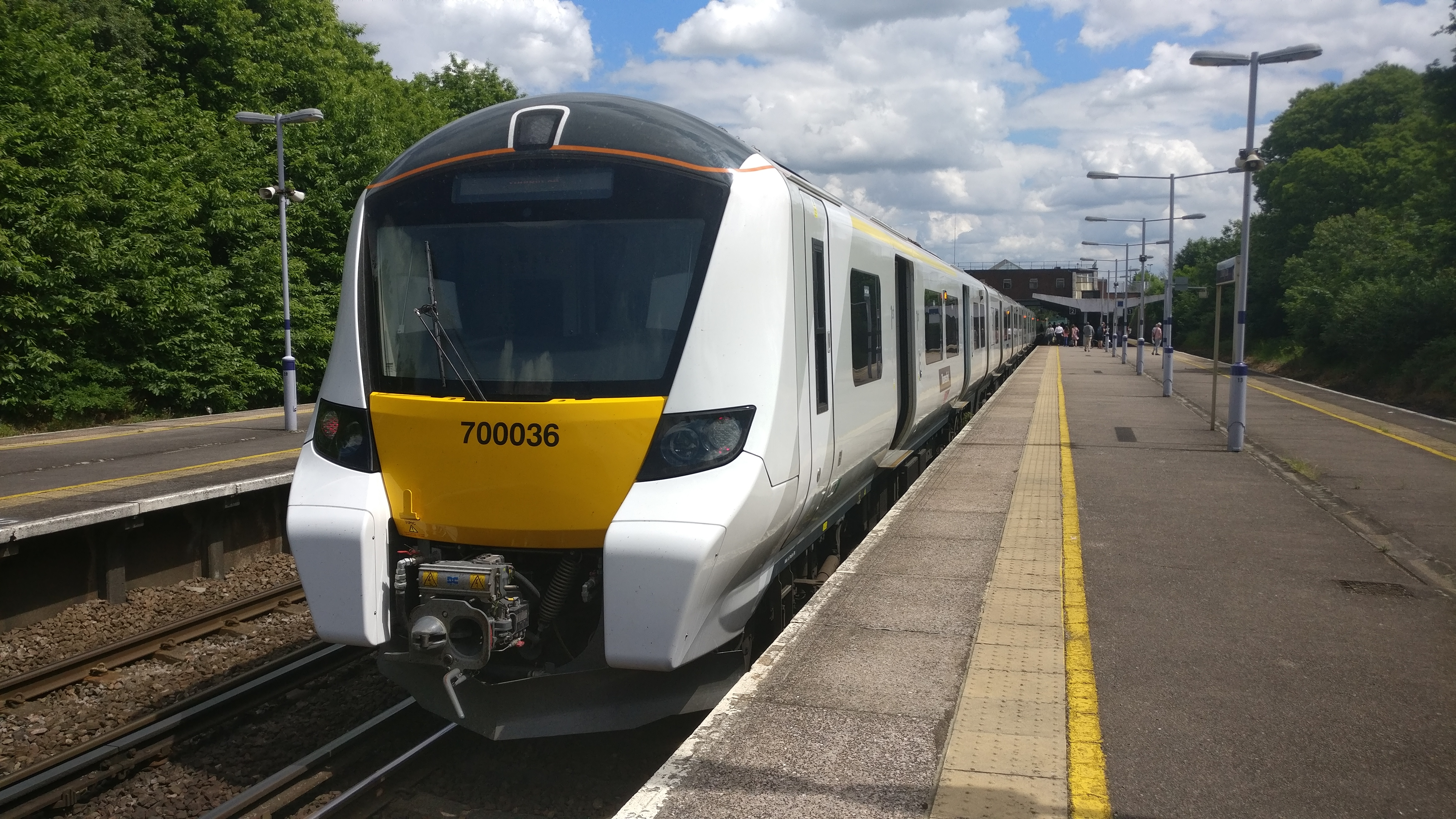 700036 working 2B29 1212 London Blackfriars to Sevenoaks seen at St Mary Cray